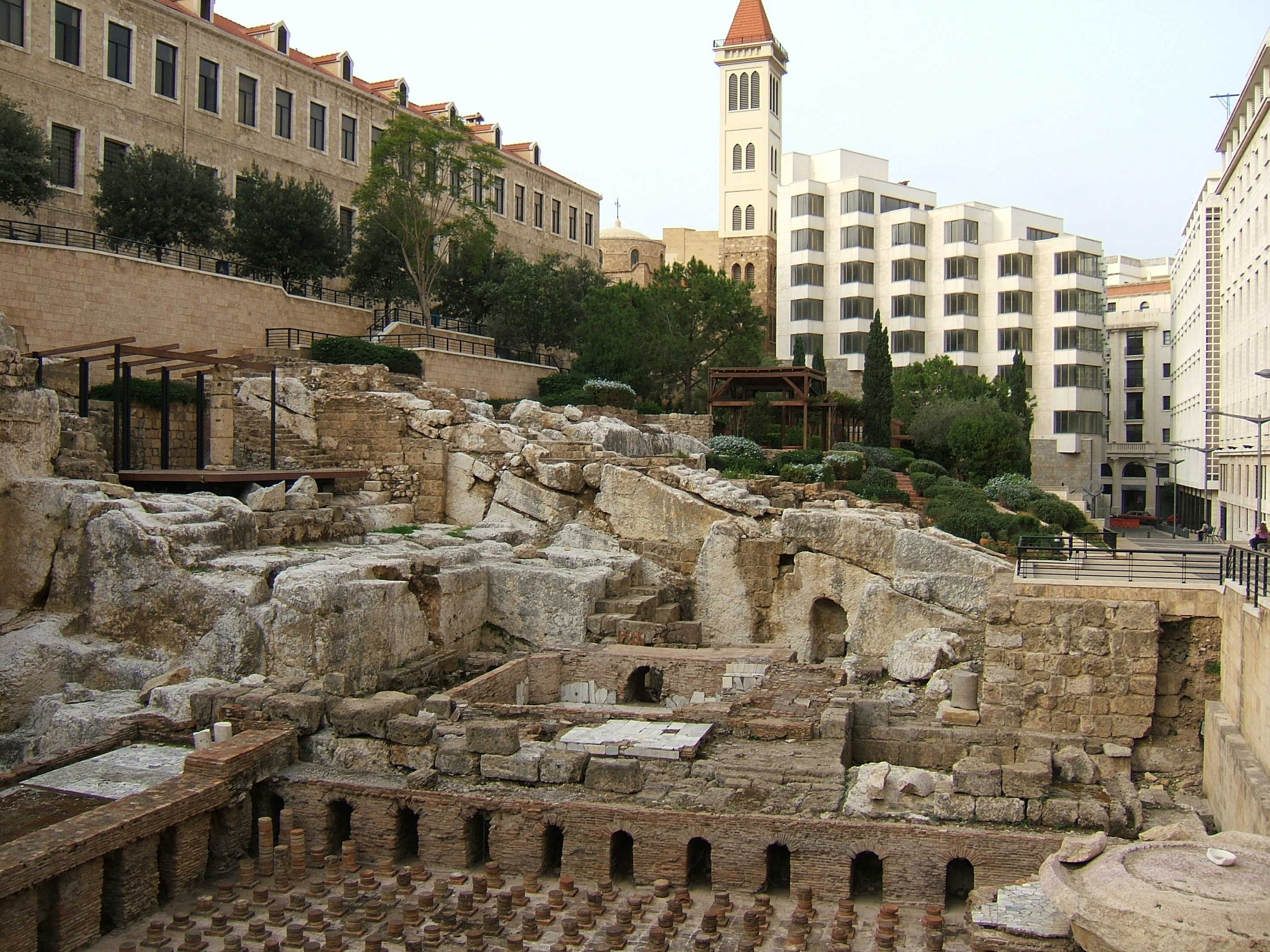 Roman Baths in Beirut city centre, Downtown district. Oct 2008 (3)